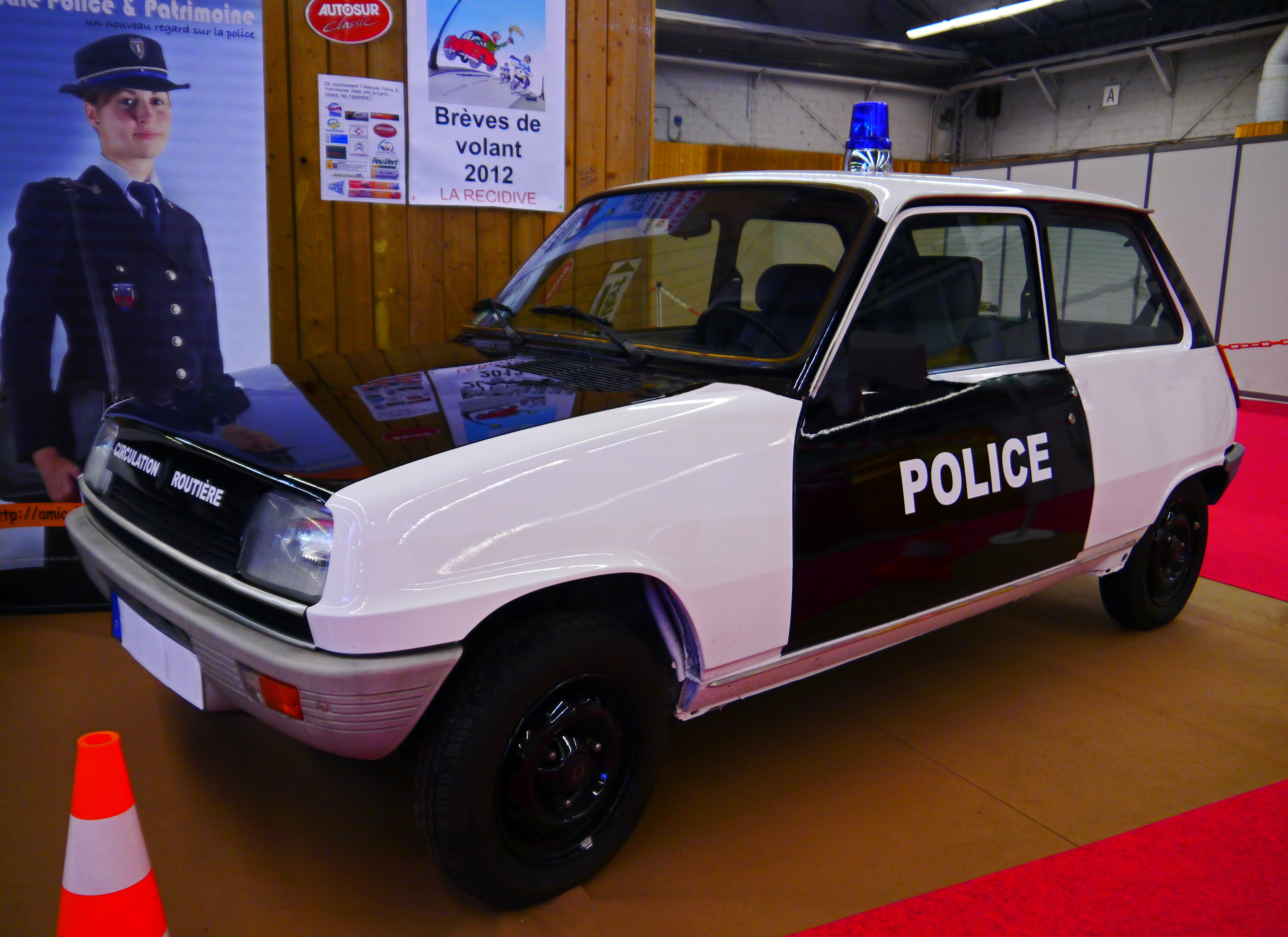 Police Nationale Renault 5 "Pie" (magpie livery).